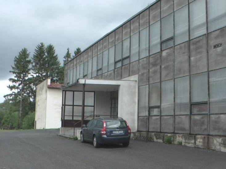 Sports Hall Bruntal